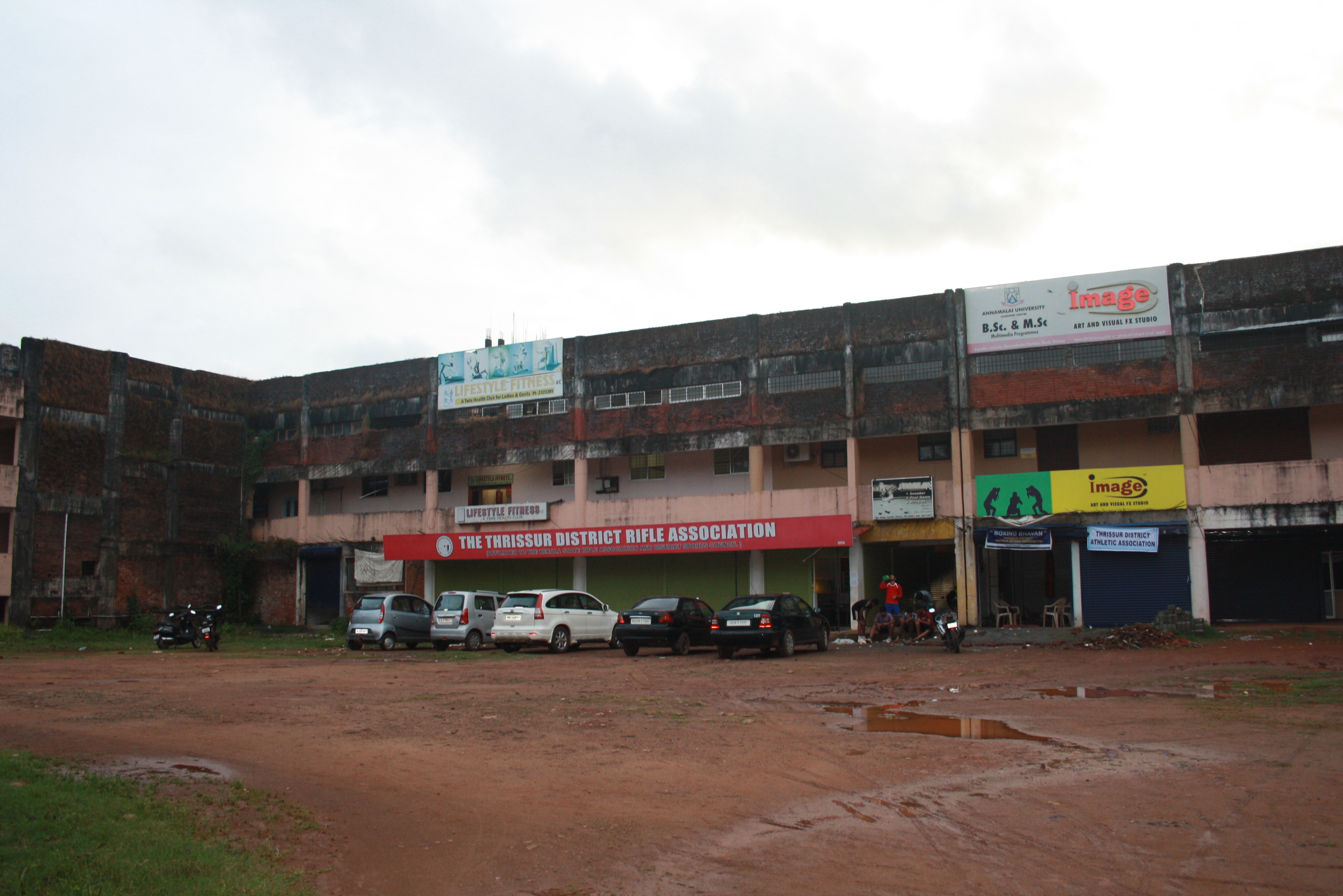 A view of Thrissur Aquatic Complex in Thrissur city on September 7, 2013